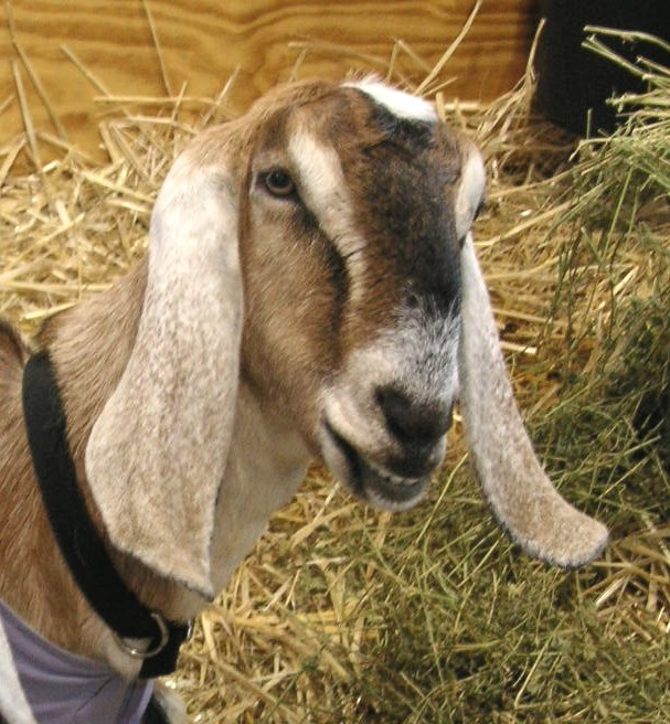 Sydney Royal Easter Show